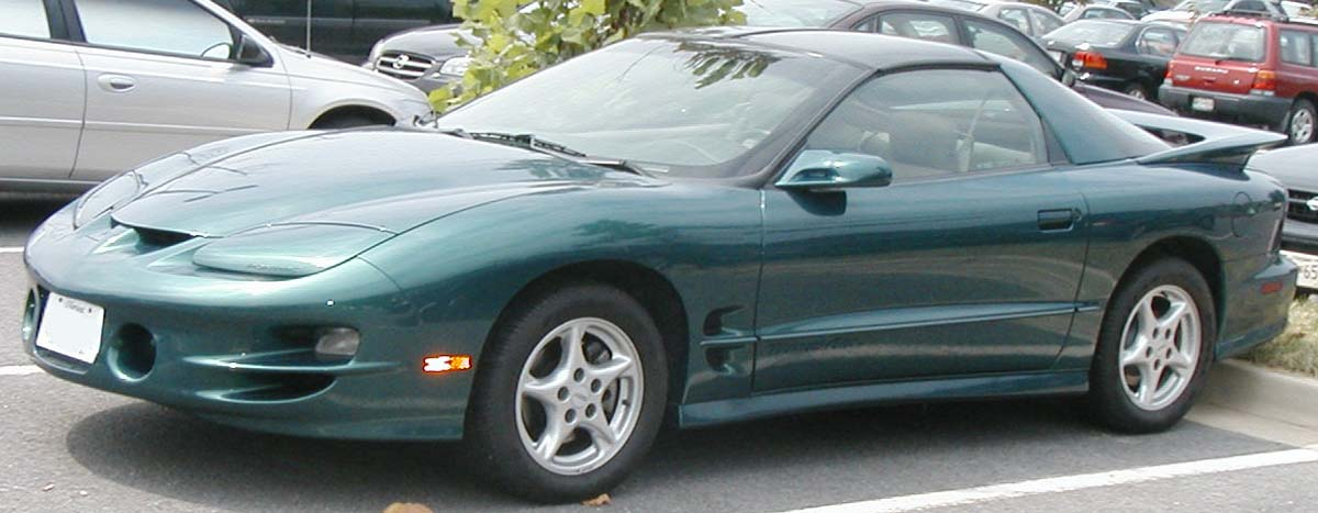 1998-2002 Pontiac Firebird photographed in USA.